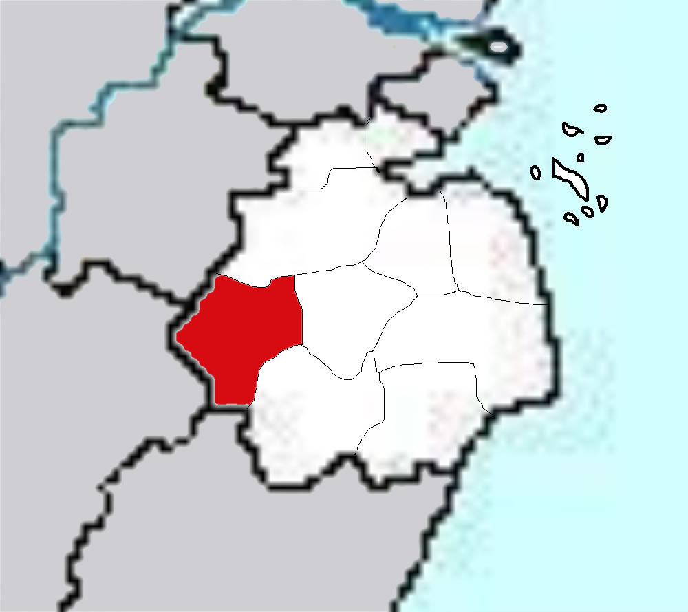 Maps of Zhejiang Province of China